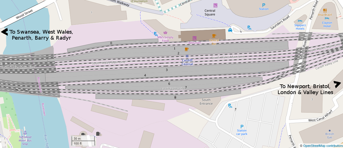 Plan of Cardiff Central station. This map may be incomplete, and may contain errors. Don't rely solely on it for navigation.